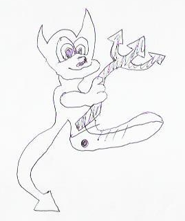 Hand drawn of BSD Daemon, as the pt-wikipedia only accepts totally free (as in freedom) media